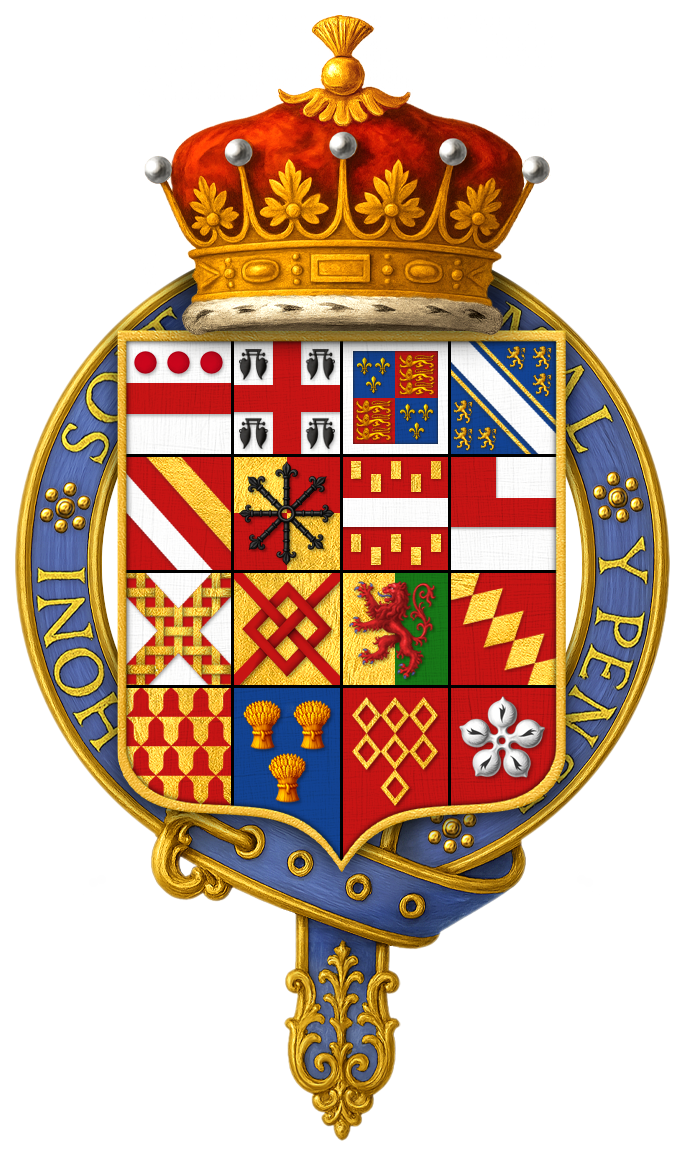 Quartered arms of Sir Robert Devereux, 2nd Earl of Essex, KG